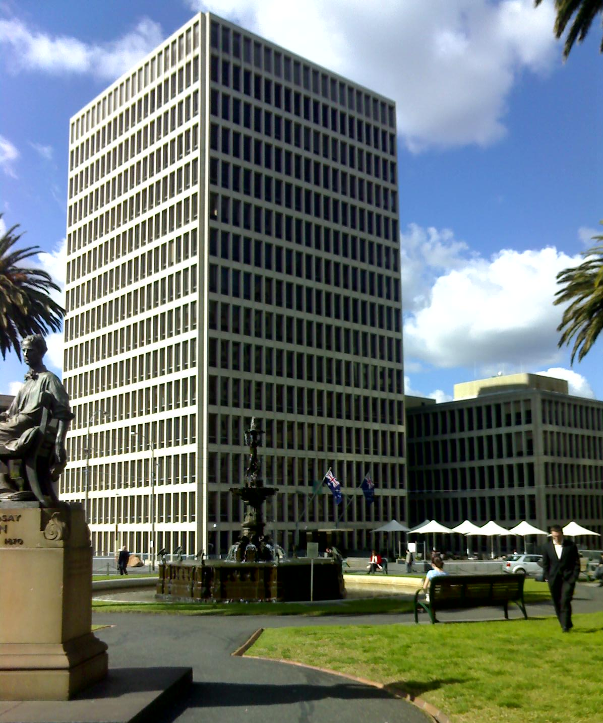 1 Macarthur Street and 1 Treasury Place, Victoria state government offices. This building is located at 1 Macarthur Street, East Melbourne, Victoria, Australia.